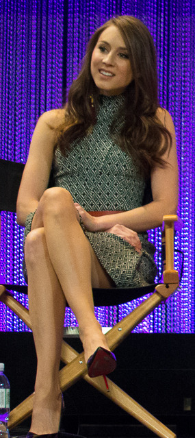 The core cast of "Pretty Little Liars" at The Paley Center For Media's PaleyFest 2014 Honoring "Pretty Little Liars". From left: Troian Bellisario, Ashley Benson, Lucy Hale, Shay Mitchell, and Sasha Pieterse.